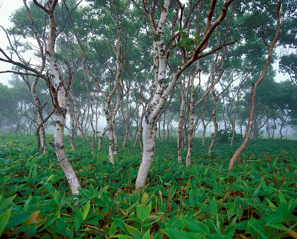 Betula ermanii (Erman's Birch), Golovnin Caldera, Kunashir Island, Kuril Nature Reserve, Sakhalin Oblast, Far Eastern Federal District of Russia.